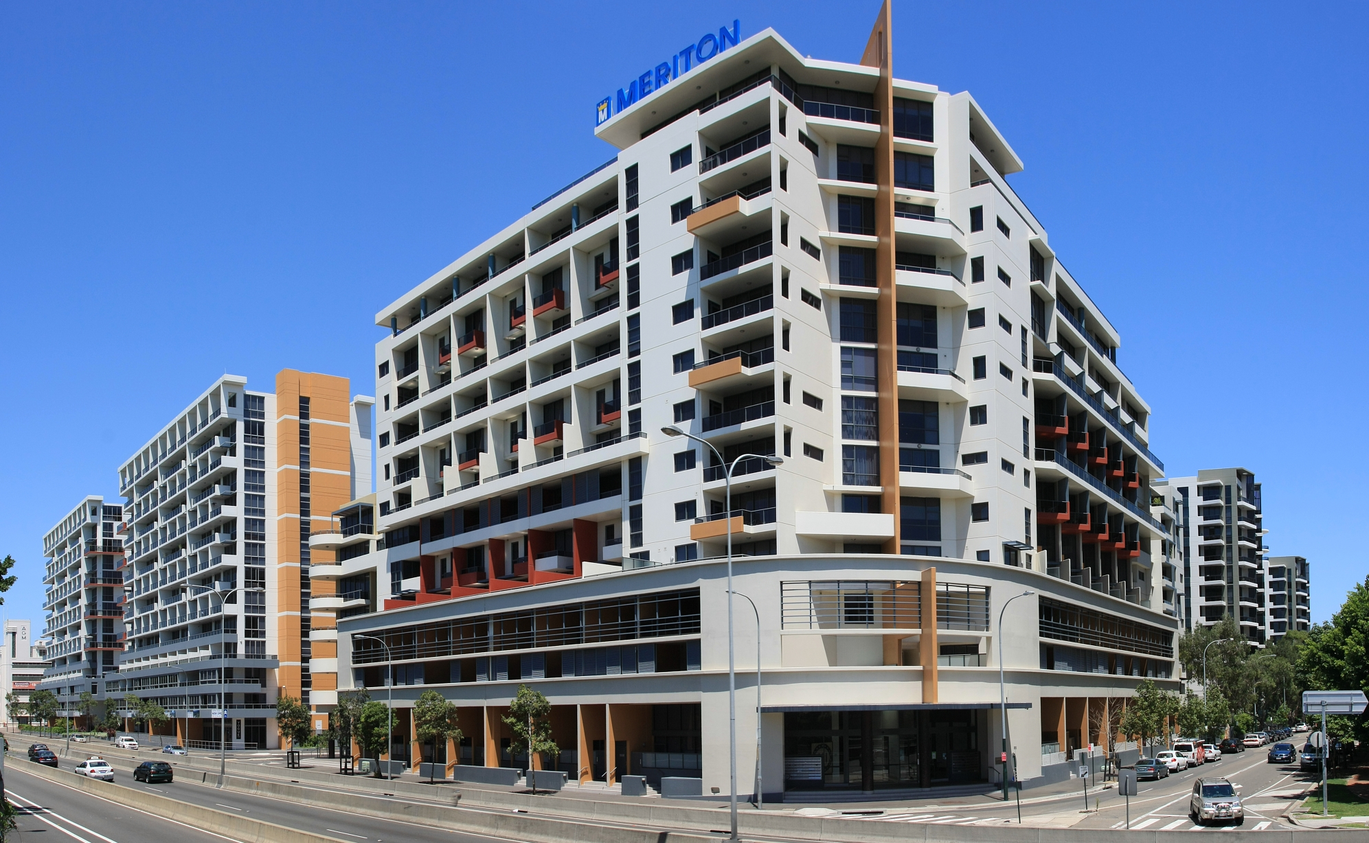 Waterloo New South Wales